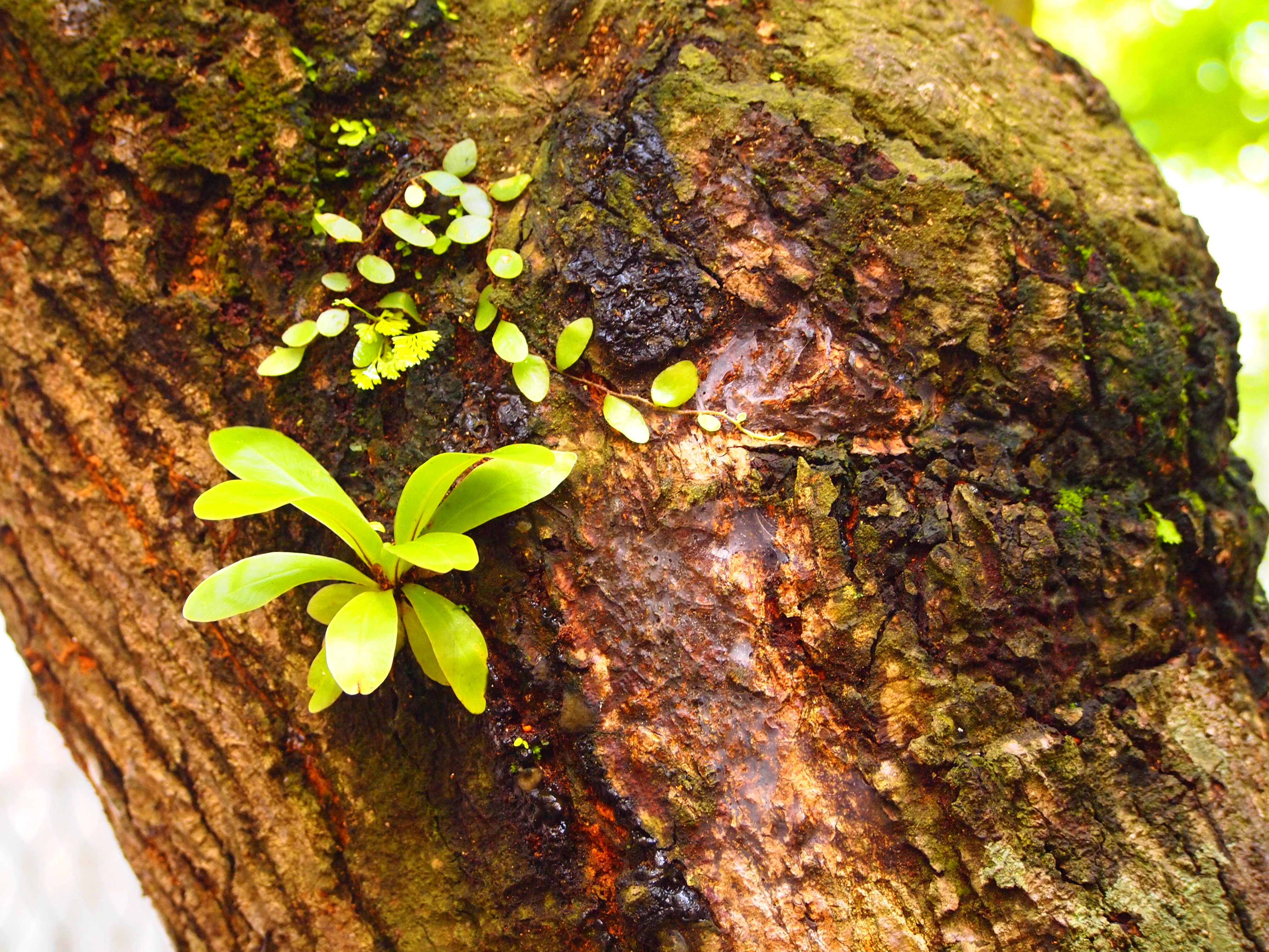 A seedling of Asplenium nidus growing on a tree trunk in Malaysia